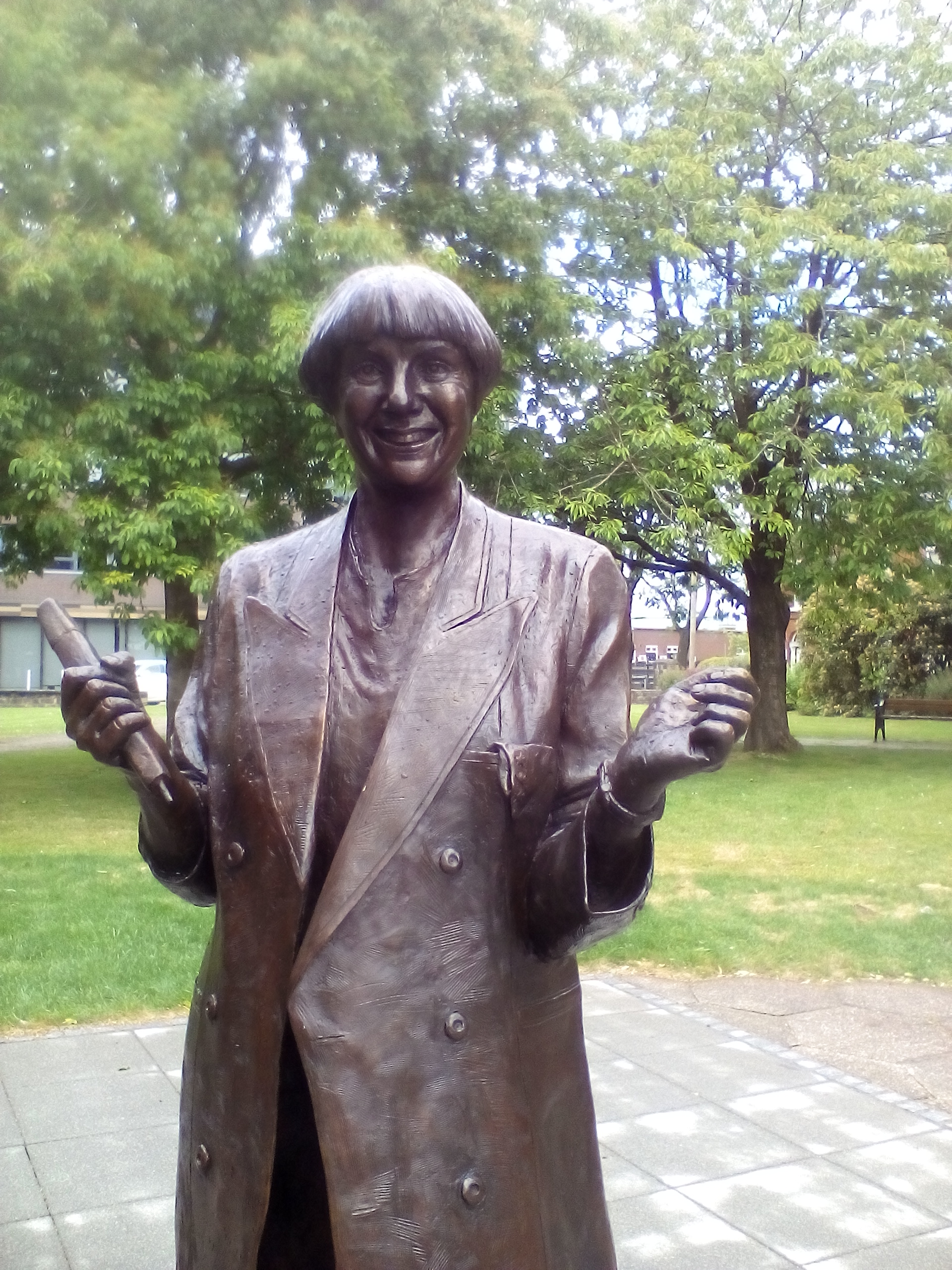 Statue of Victoria Wood, in Library Gardens, Bury, Greater Manchester. Erected in memorial and paid for by public subscription.